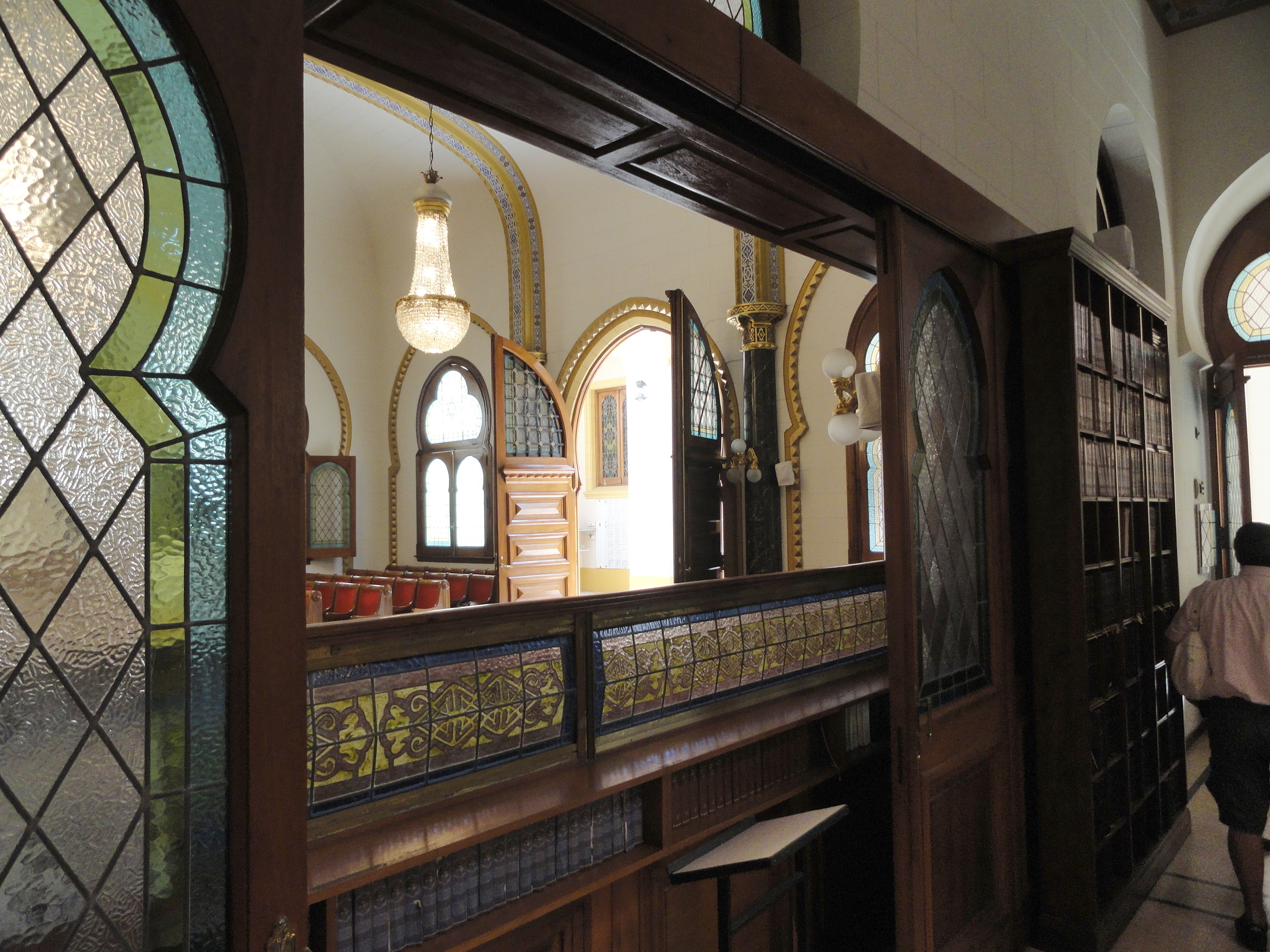 Synagogue Or Torah in Buenos Aires. The sliding window separating the prayer hall for the men from the prayer hall for the women.